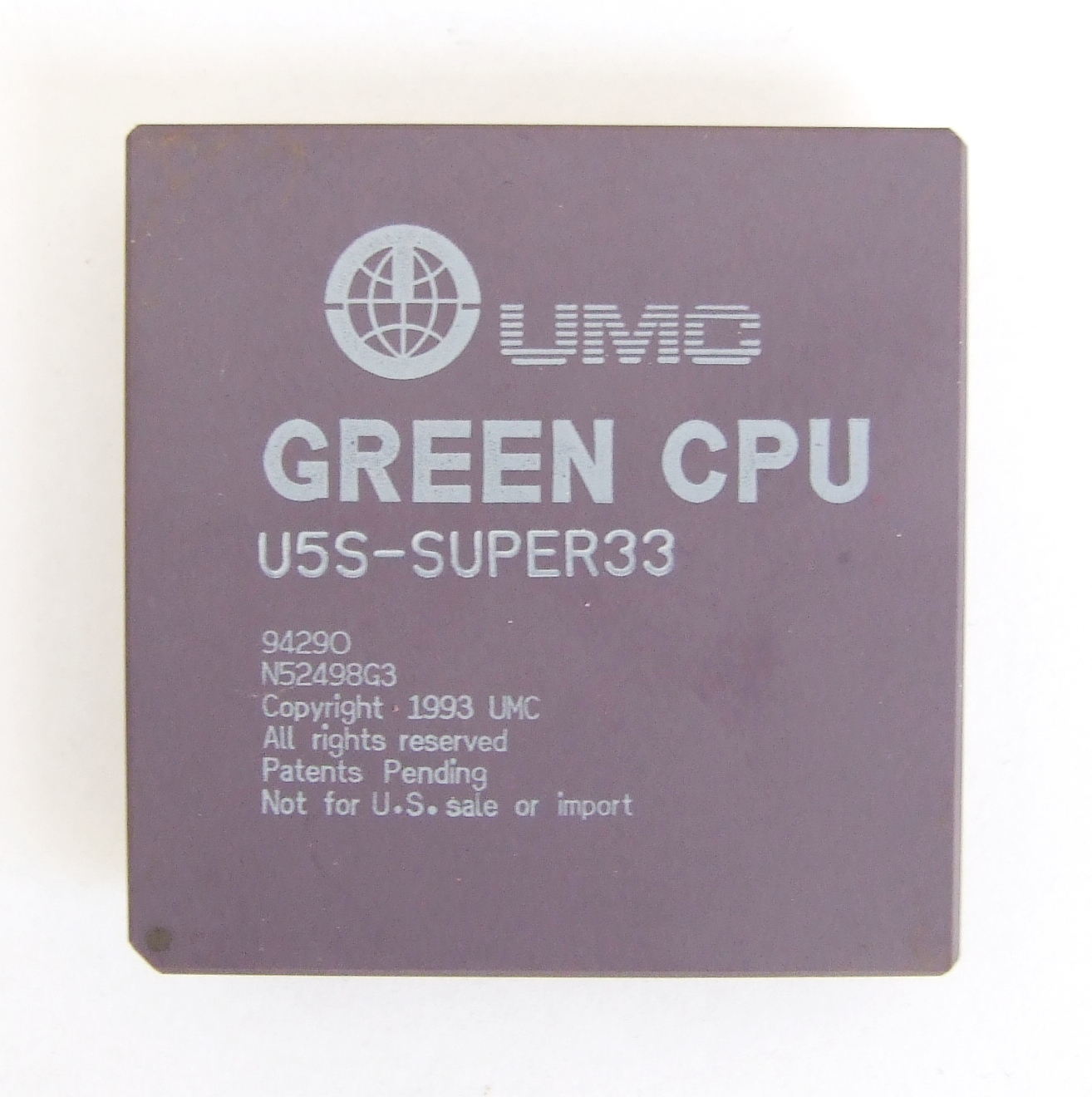 CPU UMC Green CPU U5S-SUPER33